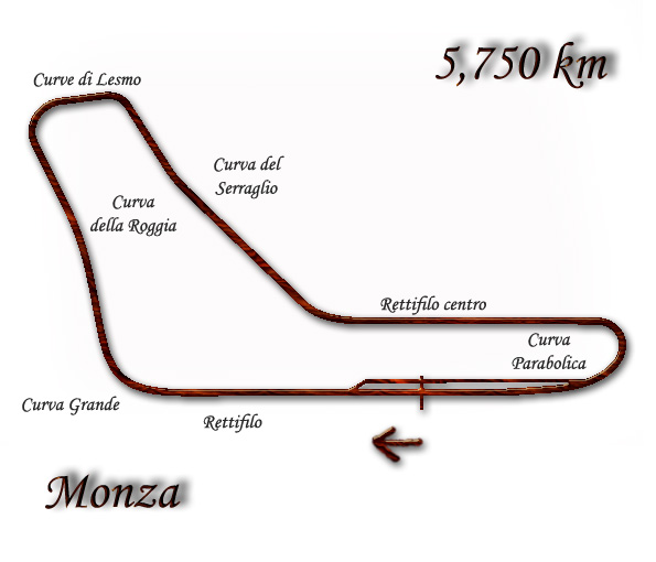 Grand Prix Italy Formula 1 /1957 - 1959//1962-1971/ Autor: Jiří Žemlička